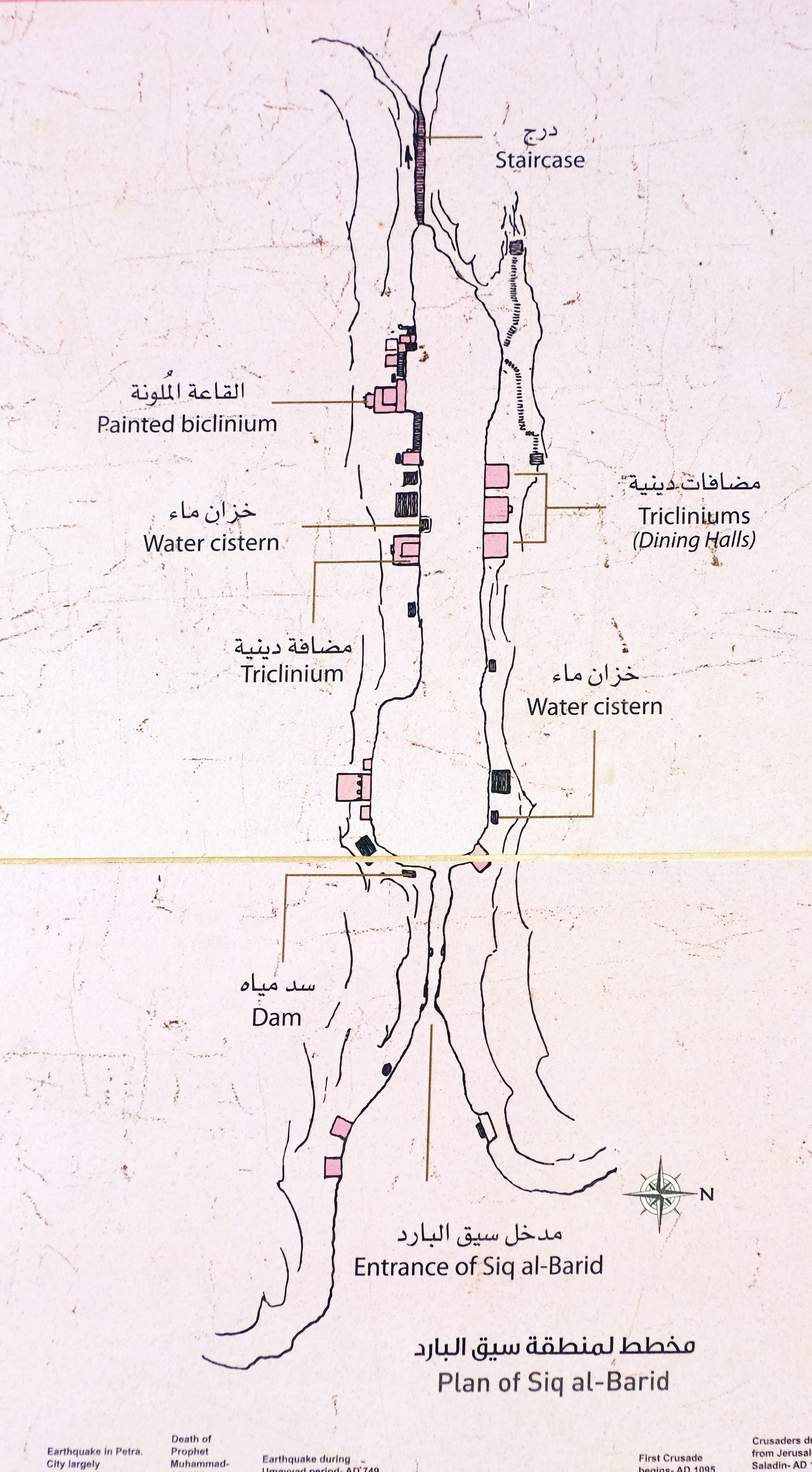 Map of Little Petra